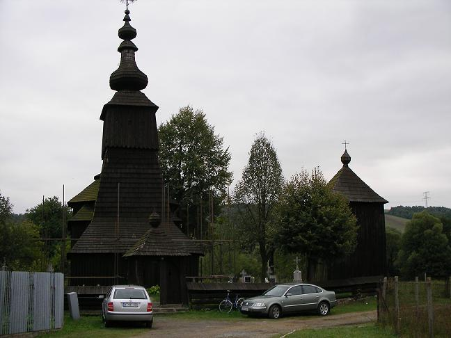 This wooden church in Ladomirova is used for mass each day at 6 PM.